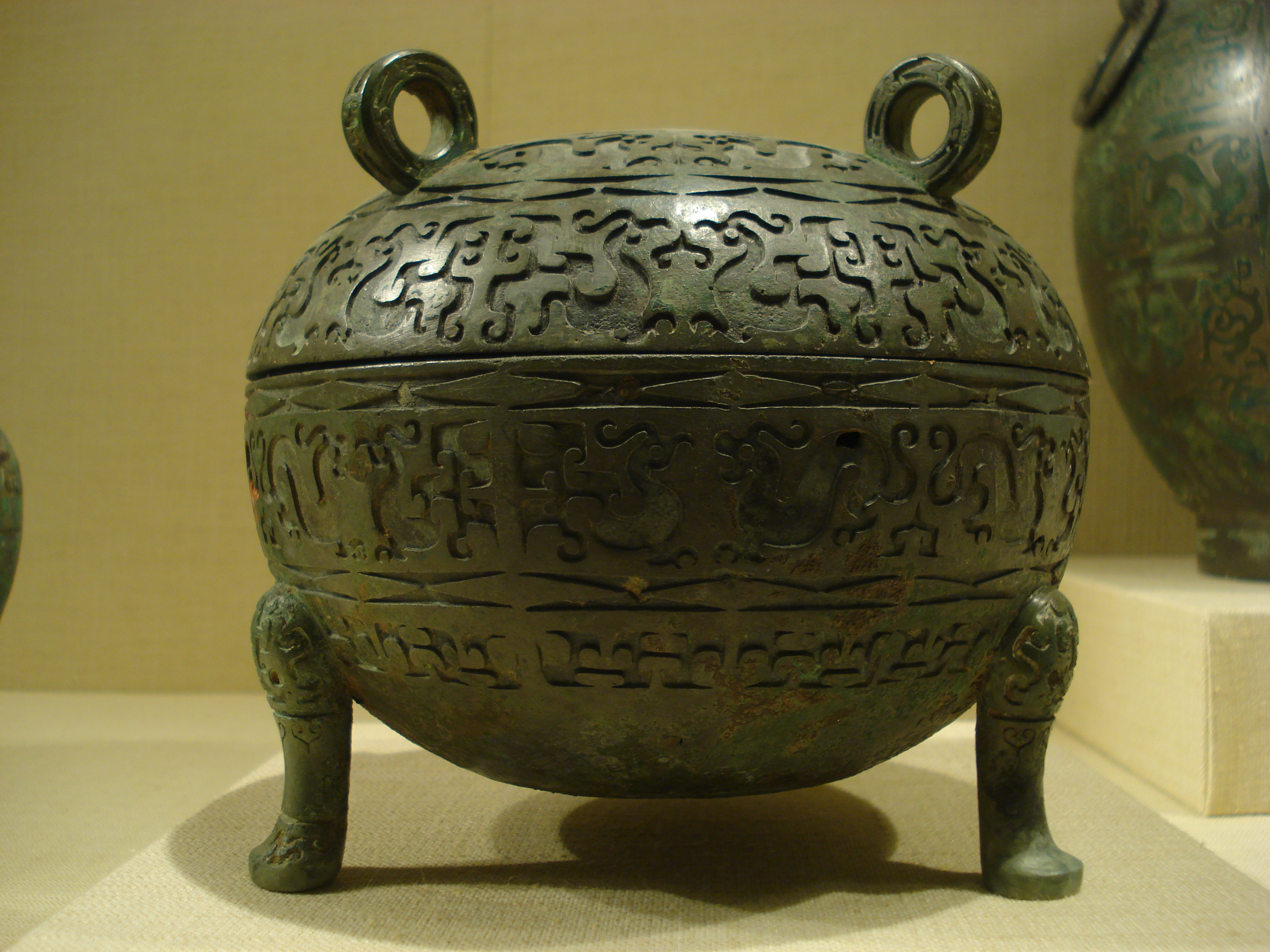 Ritual grain vessel with cover, dui. H. 15,6 cm. c. 5th century BC. Brass. The Metropolitan museum : Collection : Ritual grain vessel...